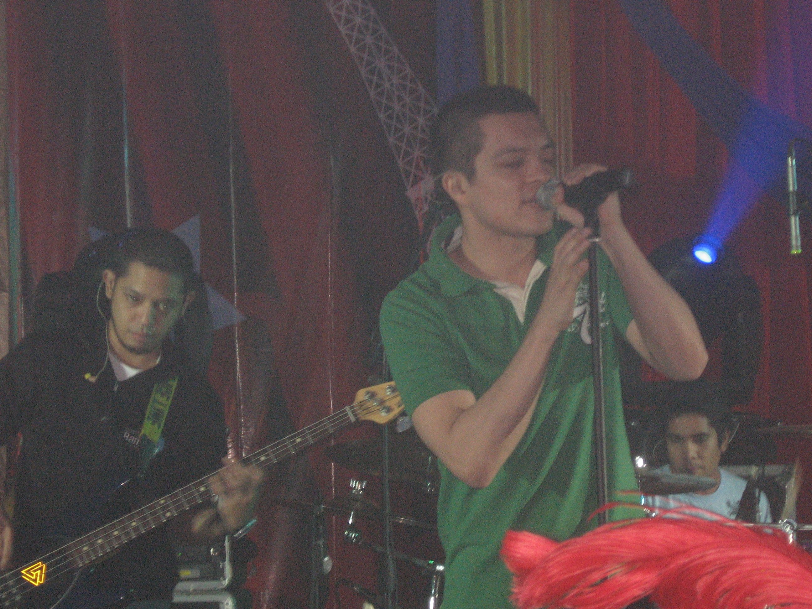 Bamboo, one of the best known Pinoy Rock bands in the Philippines. Taken December 2006 by exec8 during their Christmas party.